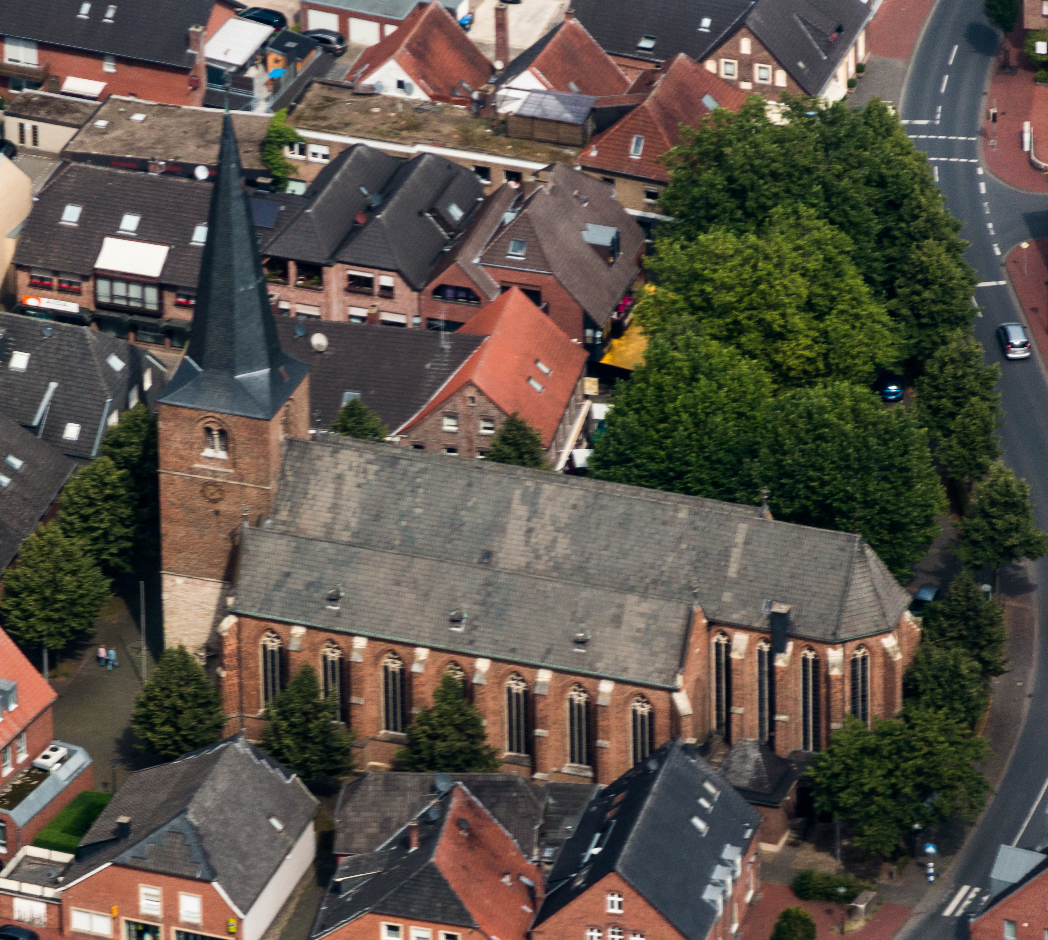 St. Martin Church, Raesfeld, North Rhine-Westphalia, Germany